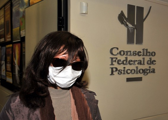 Rozangela Justino